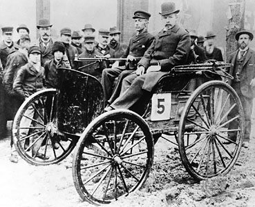 J. Frank Duryea (left) at the Chicago Times-Heald Contest, 28 Nov. 1895. He won this contest, which is seen as the first automobile race in the United States. The vehicle is a Duryea Buggyaut with twin cylinder gasolene engine. Second Person is identified as Arthur Rice, who was the umpire for this car as required by race regulations.